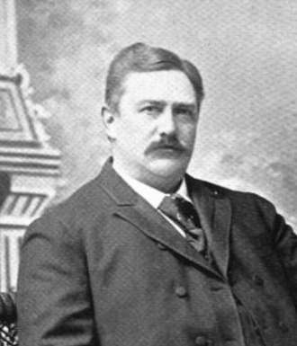 Marquette Brewer Charles Meeske